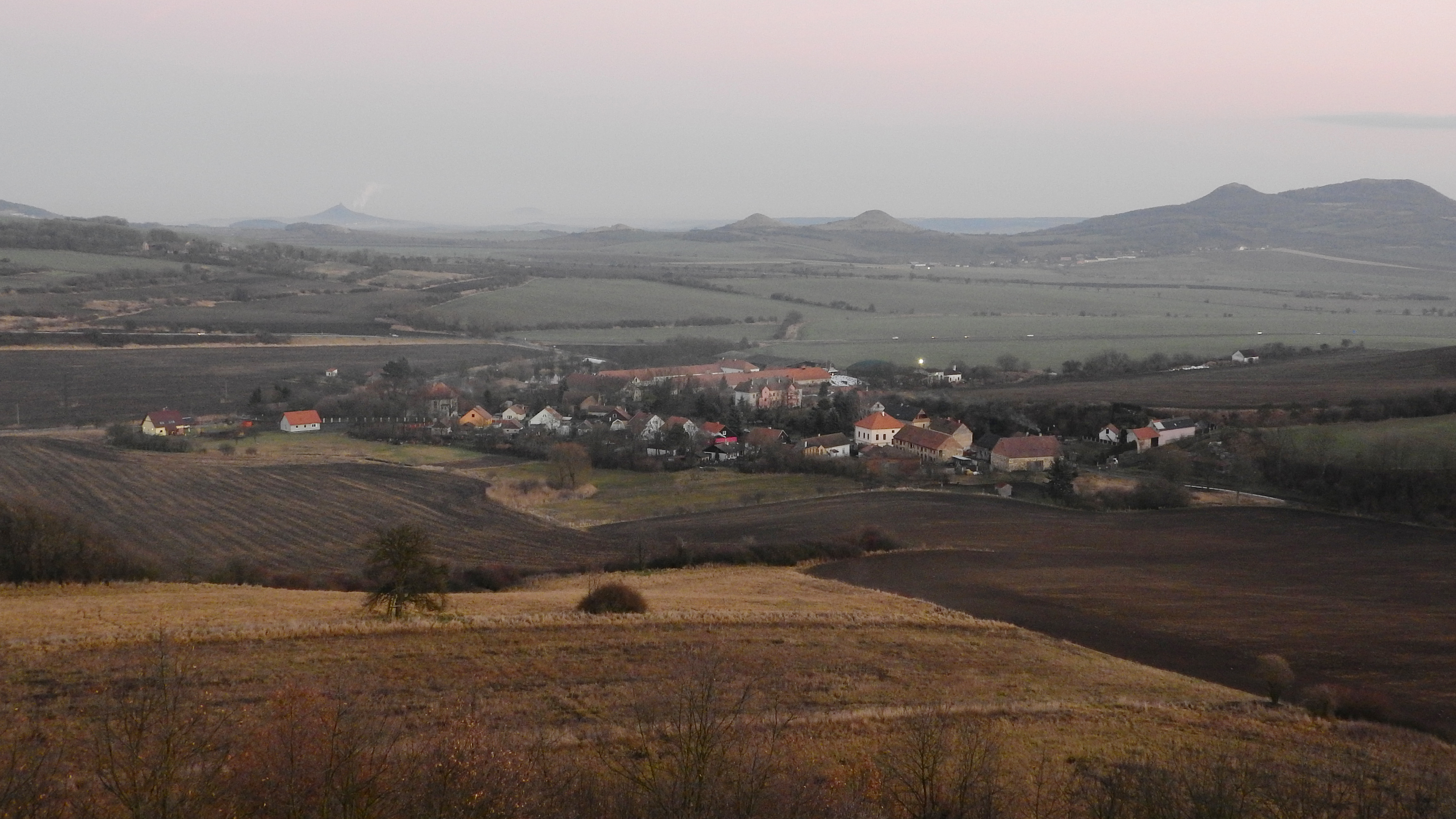 Village Odolice (Most district), from Skála hill, winter 2016.